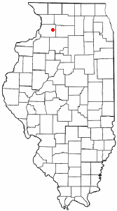 Category:Illinois city locator maps